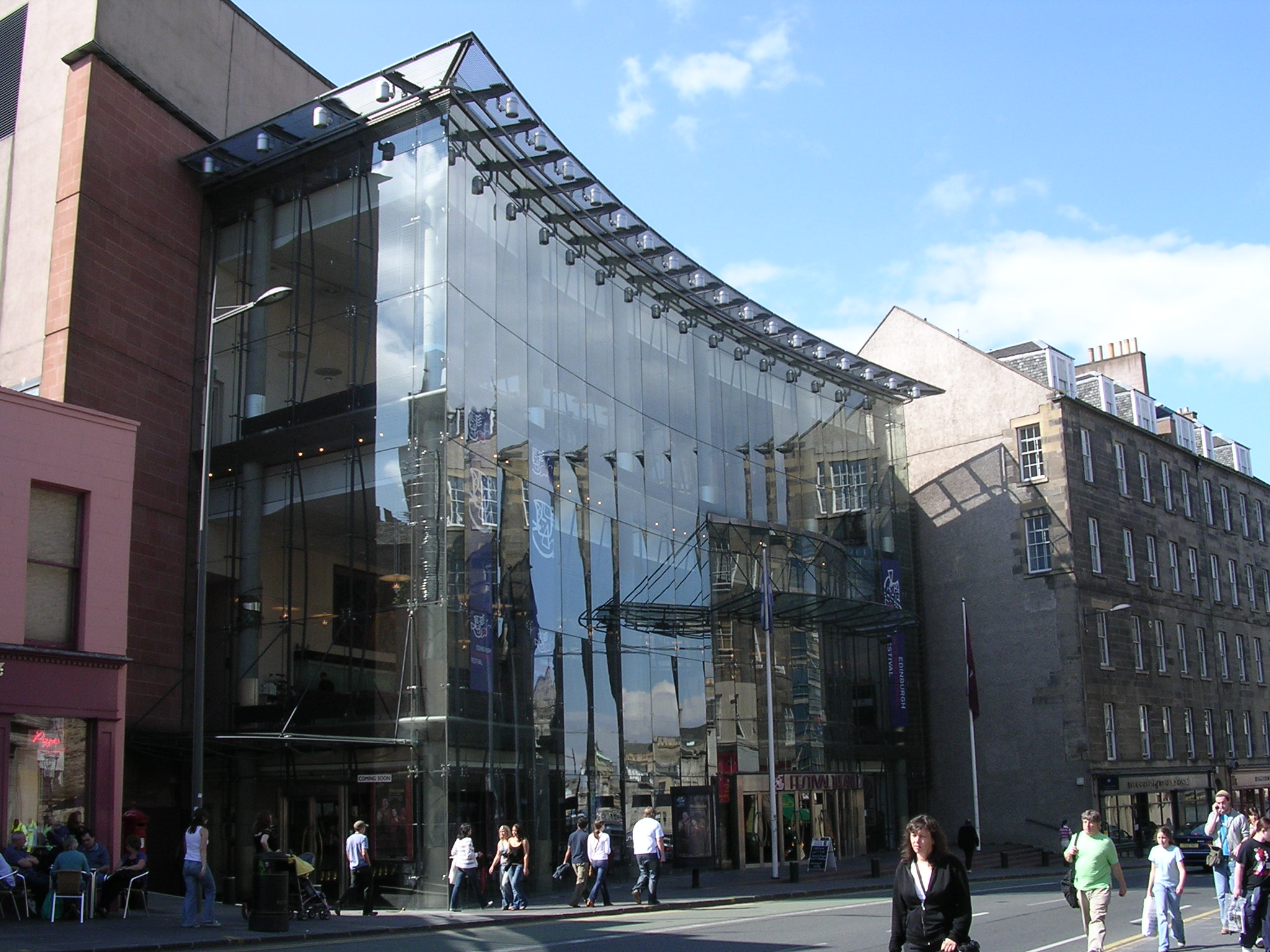 Festival Theatre, Nicholson Street, Edinburgh, Scotland. Photographed by myself. 21st August 2006